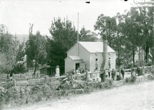 1914: Yinnar South School No.2730, Yinnar South. Pupils stand in informal groups outside the Yinnar South school.